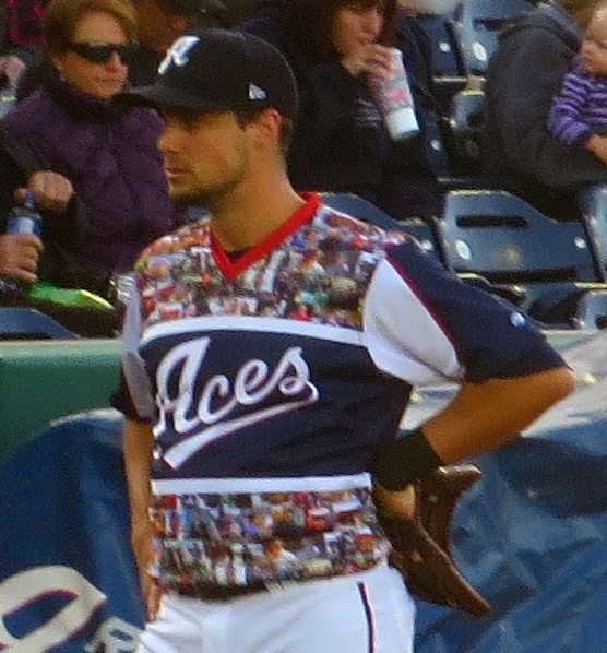 Archie Bradley on the mound for the Reno Aces during an April 2016 game at Greater Nevada Field in Reno, Nevada